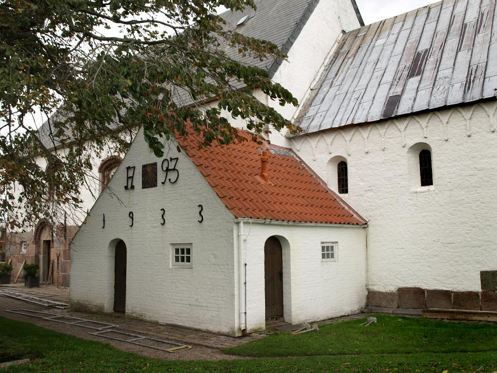 Morsum (Sylt), Slesvic-Holstein (Germany): church from the south, porch, photo 2008